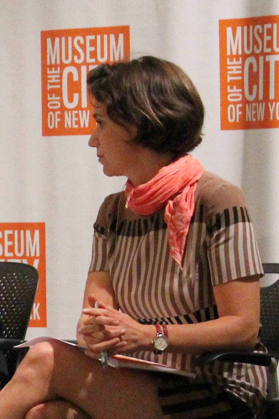 Jessamyn Rodriguez, Founder and CEO, Hot Bread Kitchen, at the "Living City, Living Wage" talk at the Museum of the City of New York.